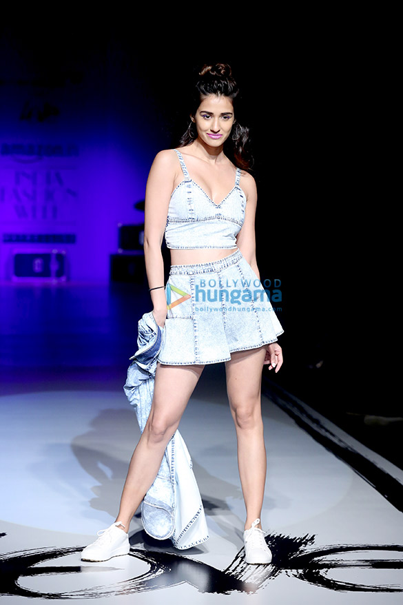 Patani at the ‘Amazon India Fashion Week Spring/Summer 2017’